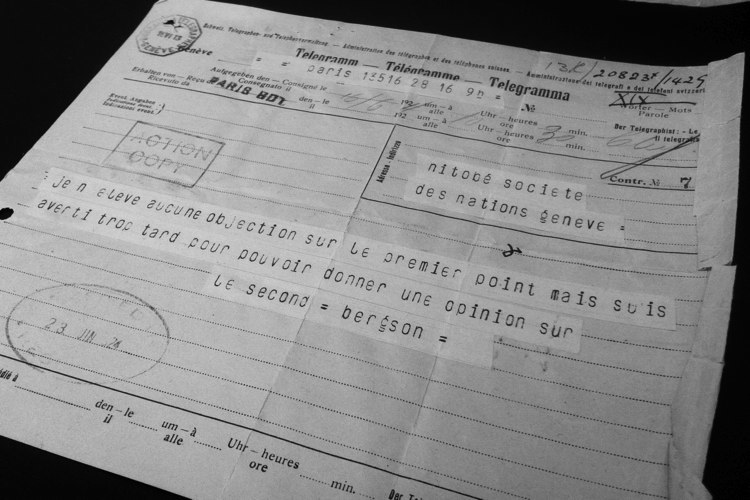 Telegram from Henri Bergson, president of the International Committee for Intellectual Cooperation to Inazo Nitobe, under-general secretary of the League of Nations and director of the International Bureaux Section, 1924.